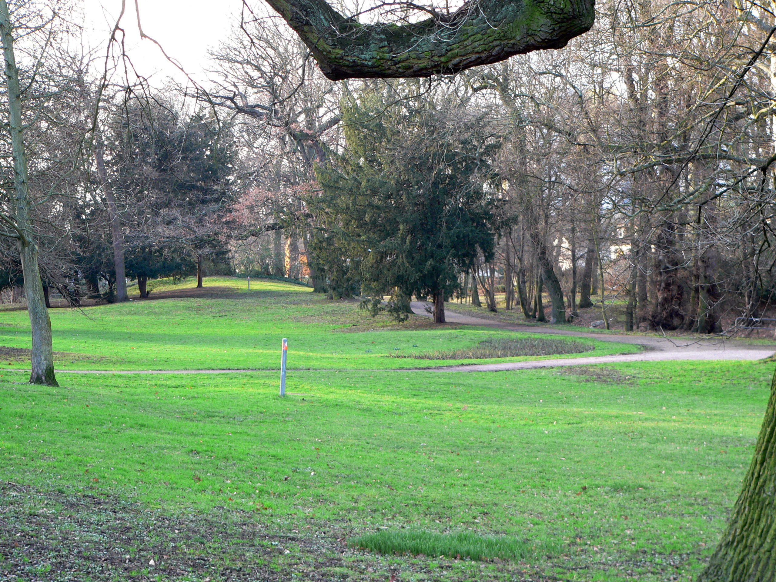 Frankfurt-Goldstein - Ende Januar im Goldsteinpark